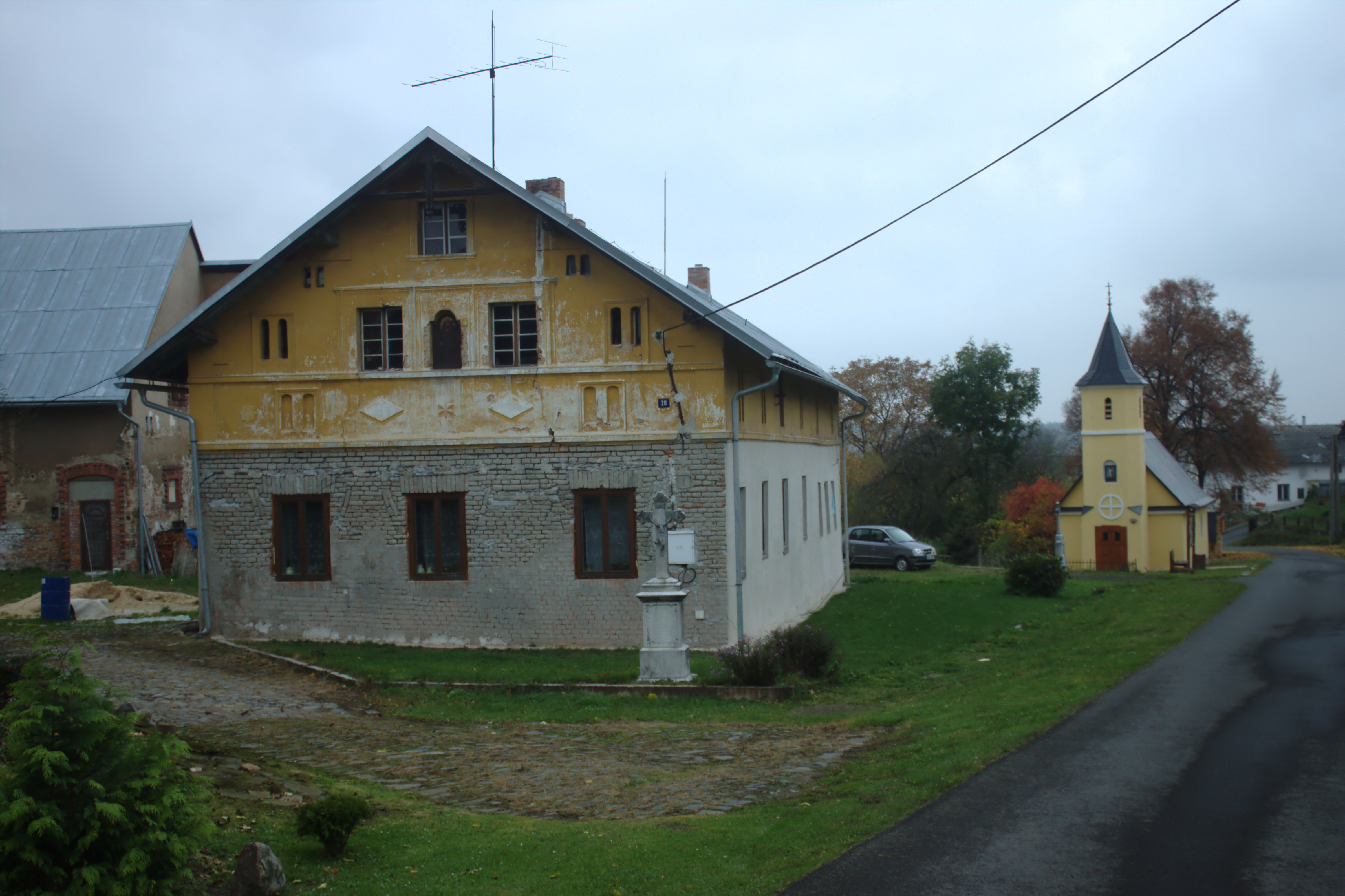 A building in the village of Koberno, Moravian-Silesian Region, CZ